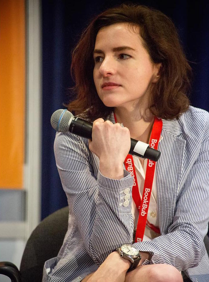 Author Maggie Thrash at a panel during BookExpo America in 2015.